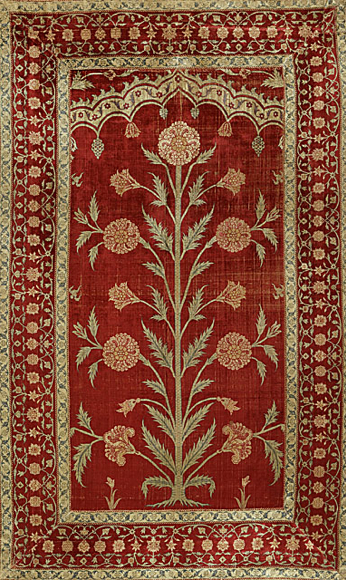 Architectural Panel, Mughal dynasty, late 17th century, India Textile, Cut and voided silk velvet, 78 x 49 in. (198.12 x 124.46 cm) Gift of Mrs. Anna Bing Arnold (M.75.22),Los Angeles County Museum of Art